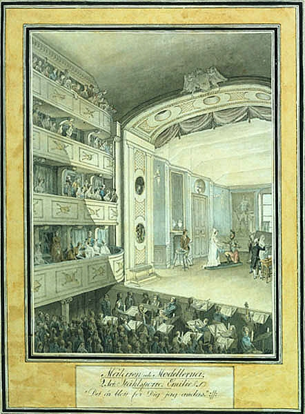 Interior of the Gustavian operahouse in Stockholm. By Gustaf Nyblaeus.